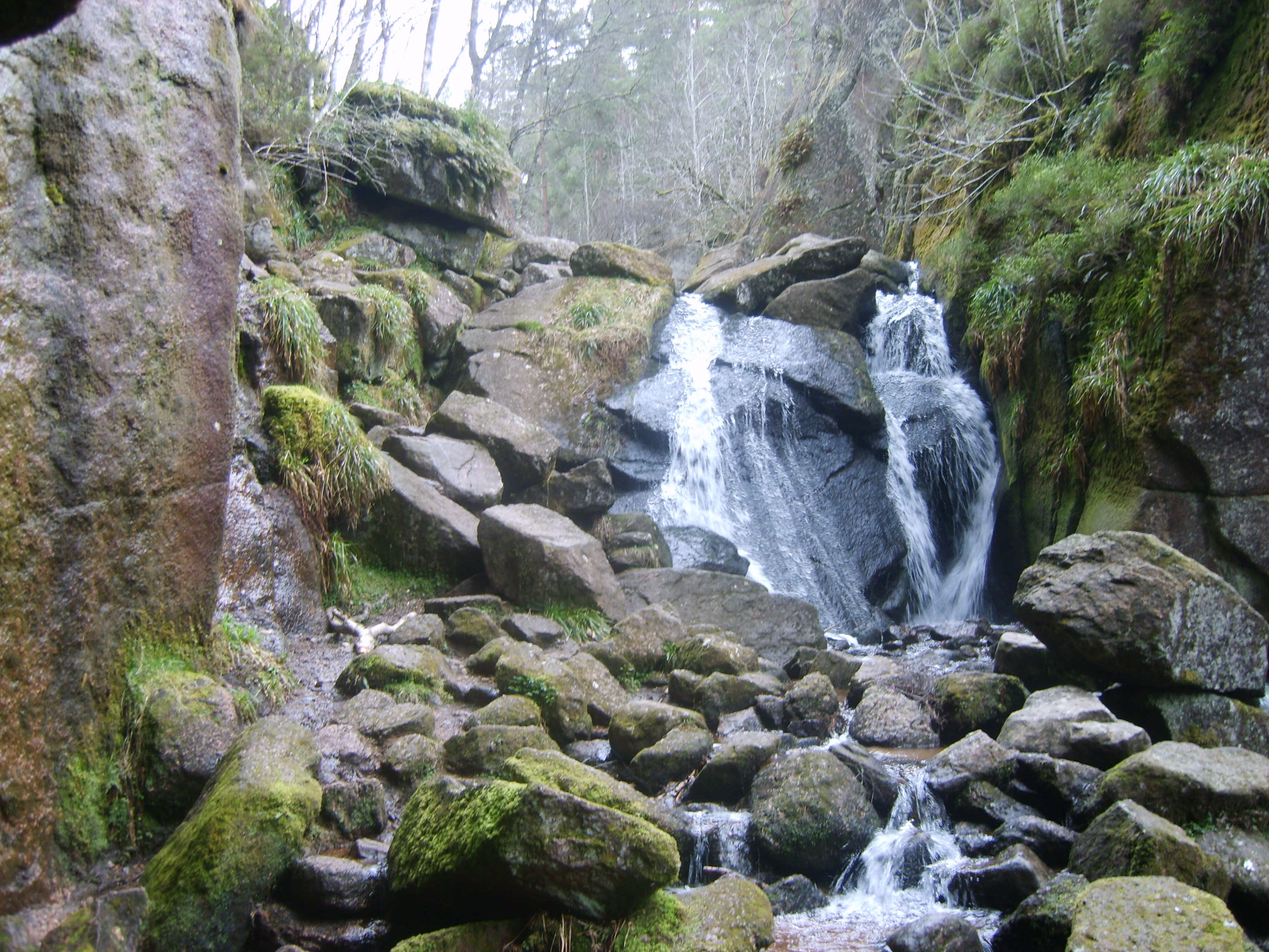 The waterfall at Burn O'Vat, when water is cascading.